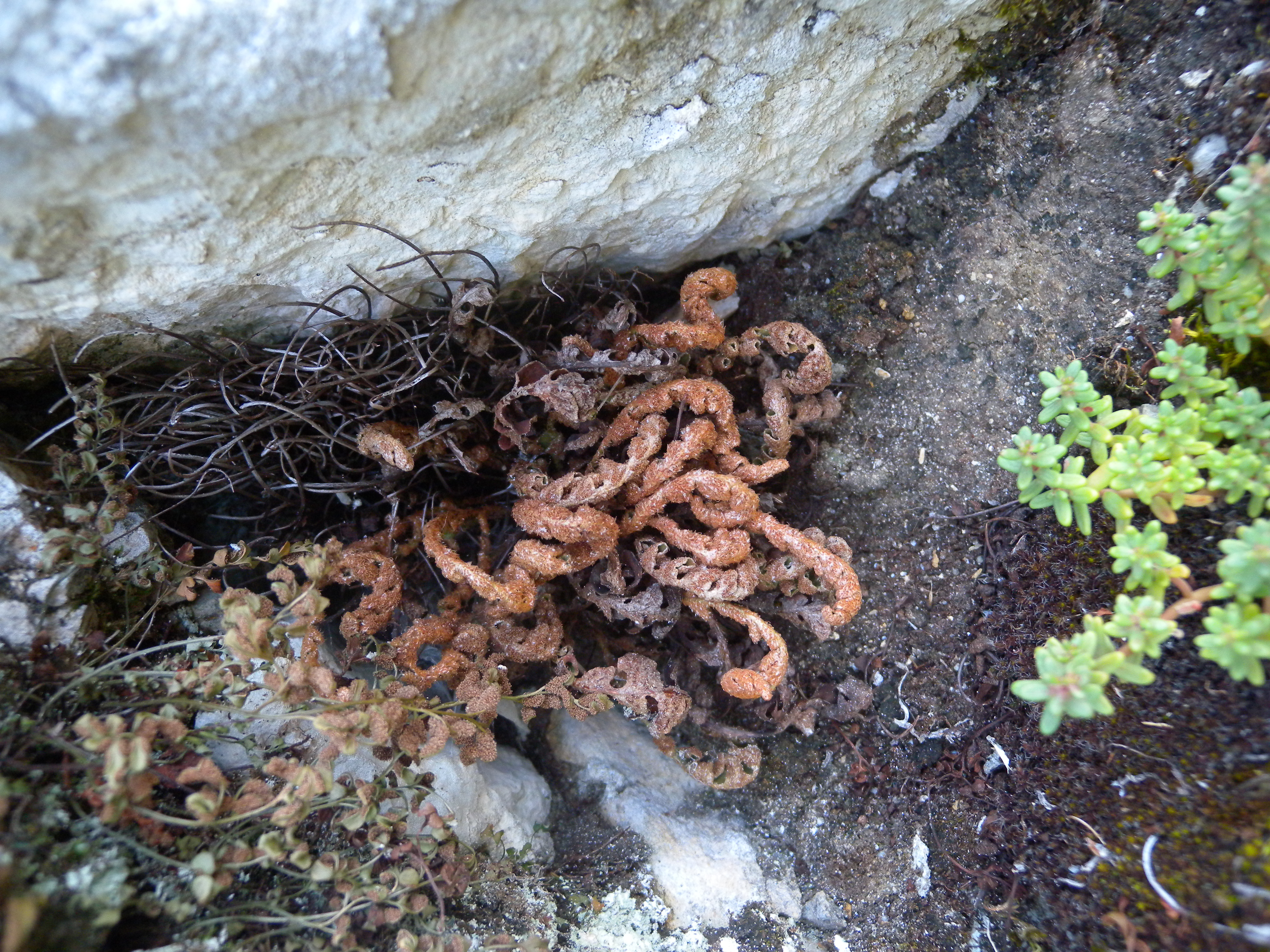 Ceterach officinarum (Aspleniaceae) during a very dry summer; Ligerz, Canton of Bern, Switzerland